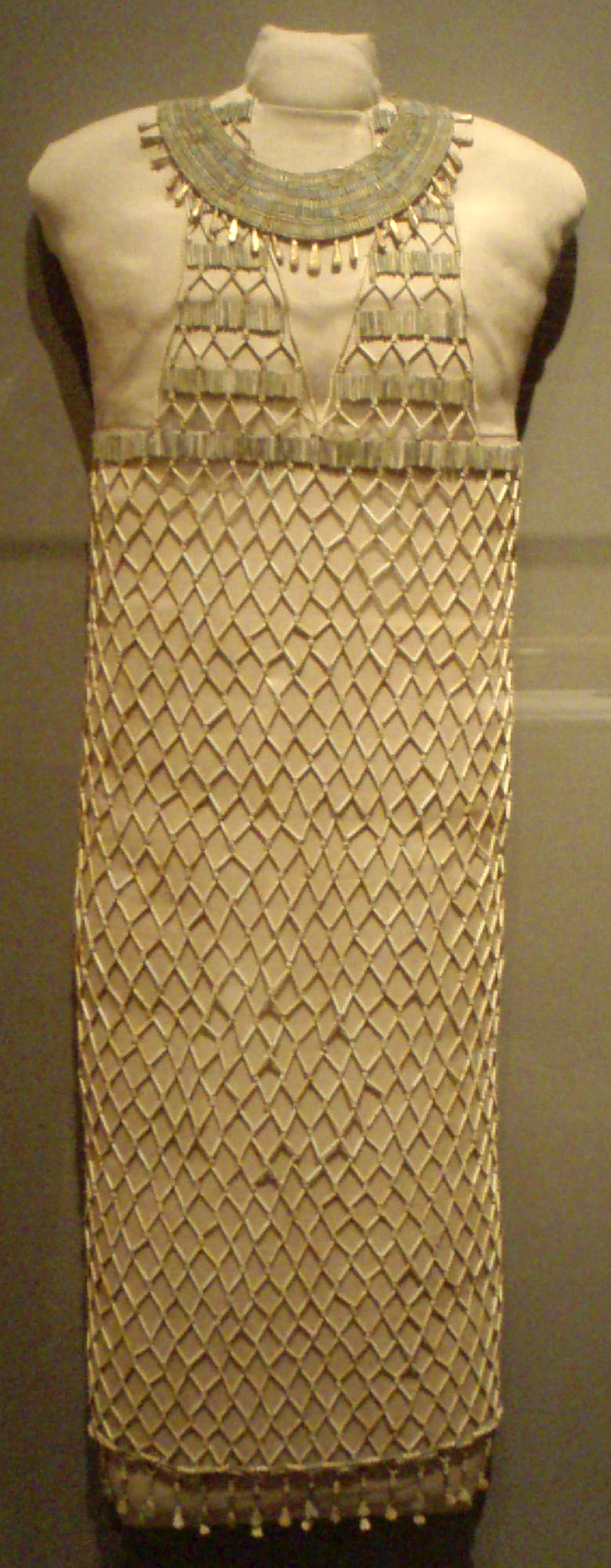 Beadnet dress, from Giza, tomb G 7440 Z. Made of faience, and dating to the 4th dynasty, from the reign of Khufu, circa 2551-2528 B.C. Now residing in the Museum of Fine Arts, Boston.Khufu reign: 2589 to 2566 BC.